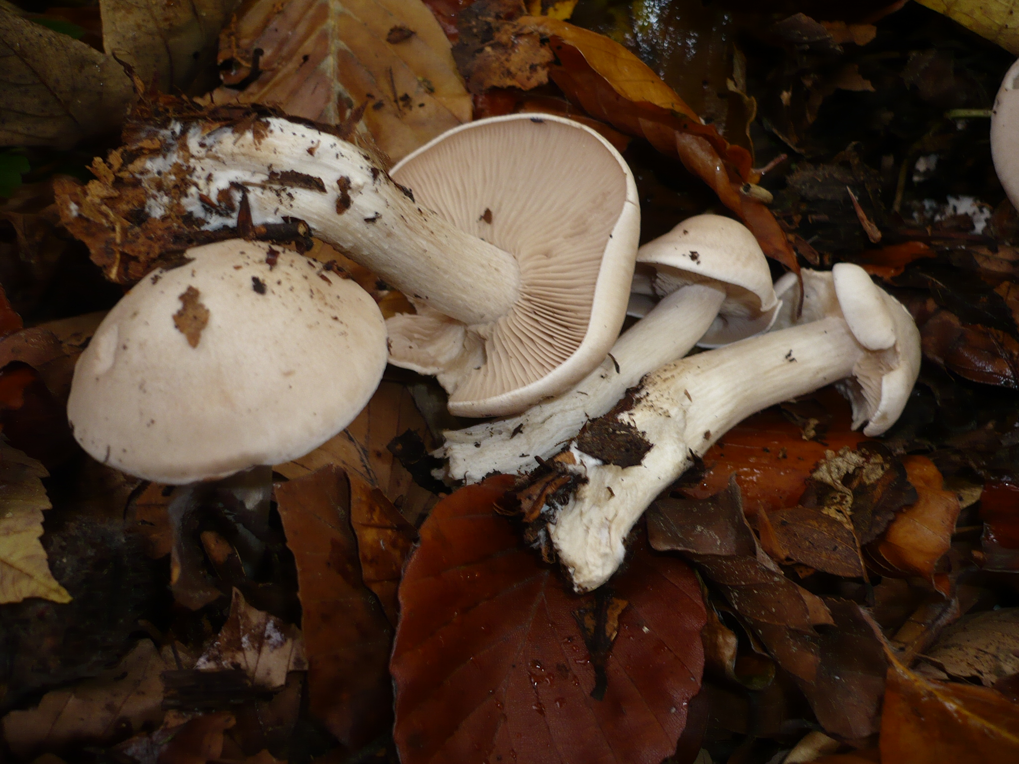 False Blewitt (Lepista irina) from Roh, Hřebeč, Bohemia, Czech Republic